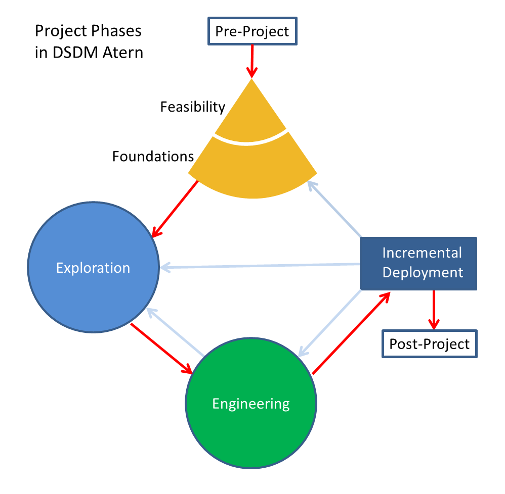 Description of the phases in a DSDM Atern project. Red lines indicate primary route, pale blue lines indicate optional routes